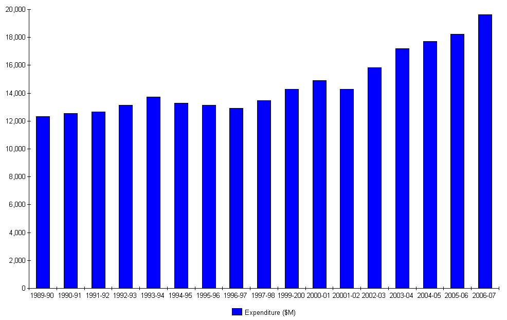 Australian Defence expenditure between 1989-1990 and 2006-07 in constant 2004-05 dollars.